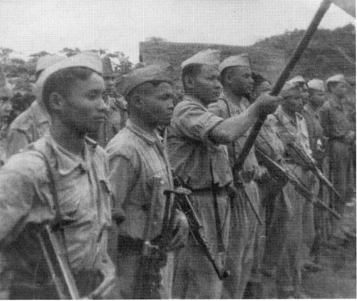 1953; Pathet Lao guerillas in Sam Neua city